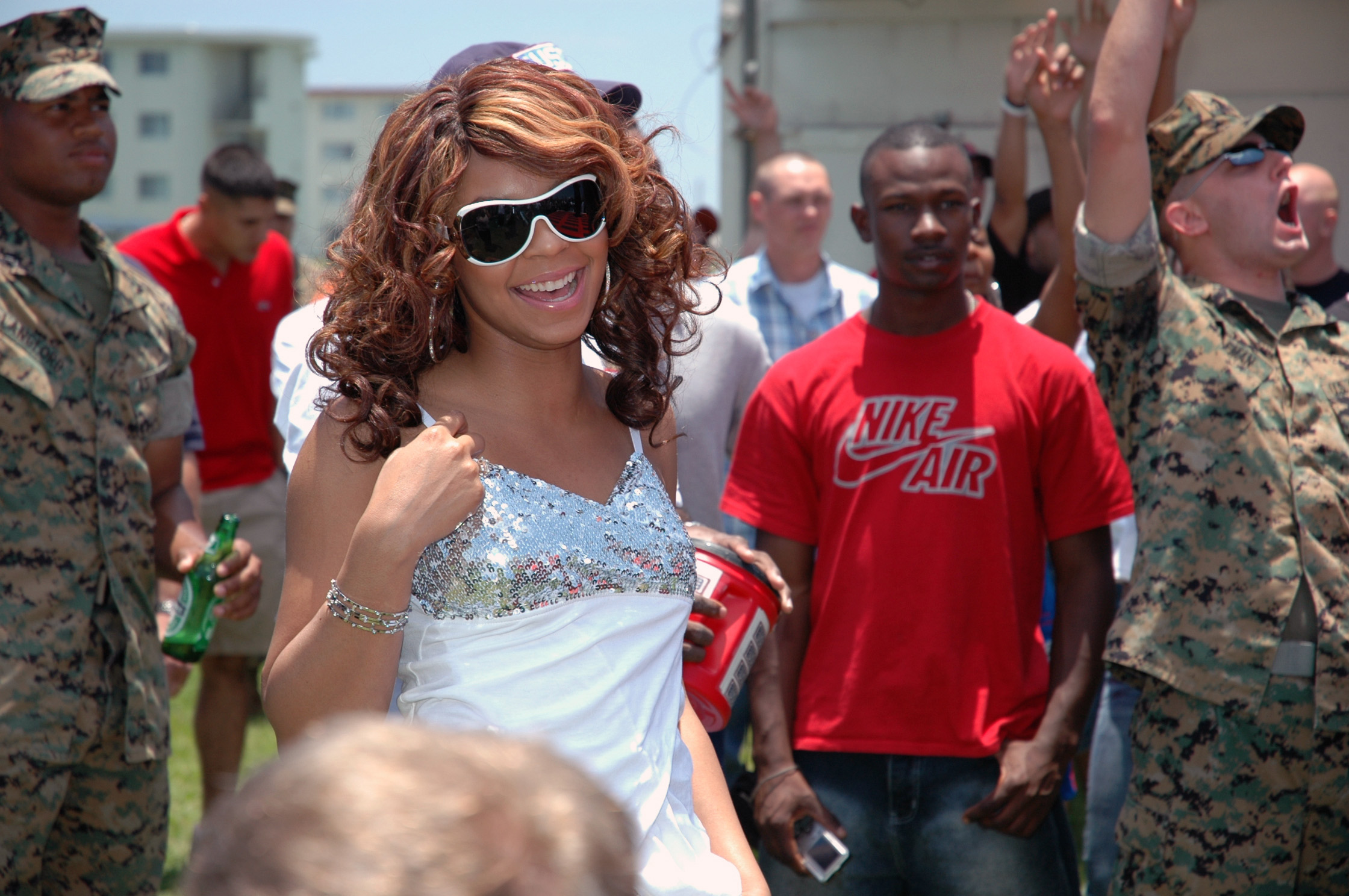 Rhythm and blues singer Ashanti, wearing all white, smiles for the camera on Camp Hansen, Japan, June 5, 2005, after she speaks with U.S. Marines during a United Service Organizations tour.